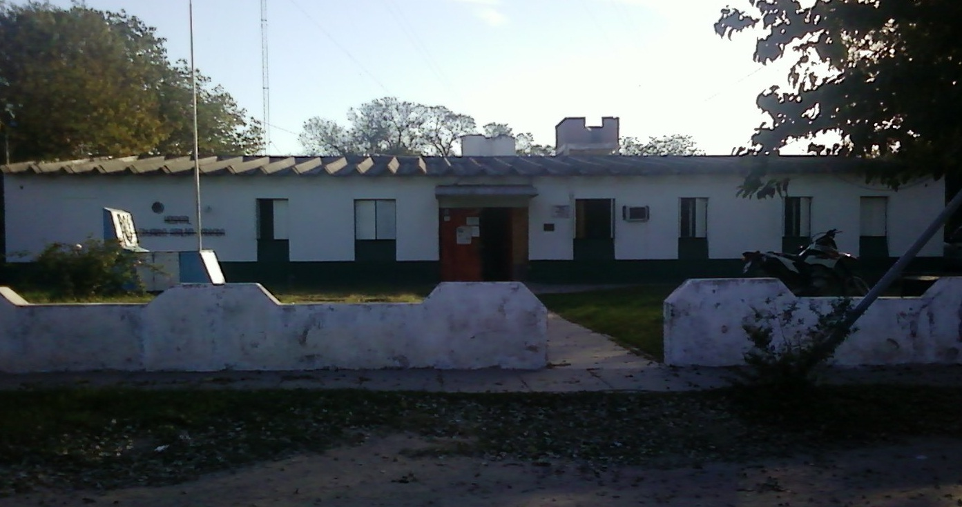 Hospital Zonal Santa Rosa